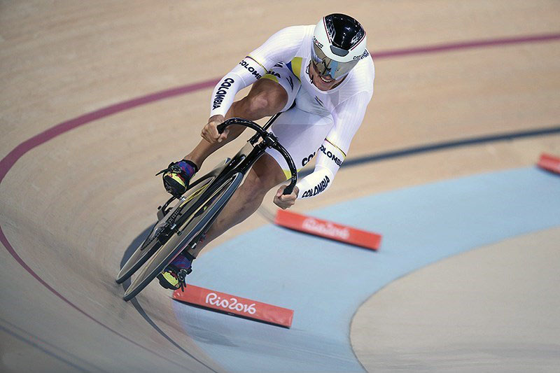 Track cyclist at the 2016 Summer Olympics